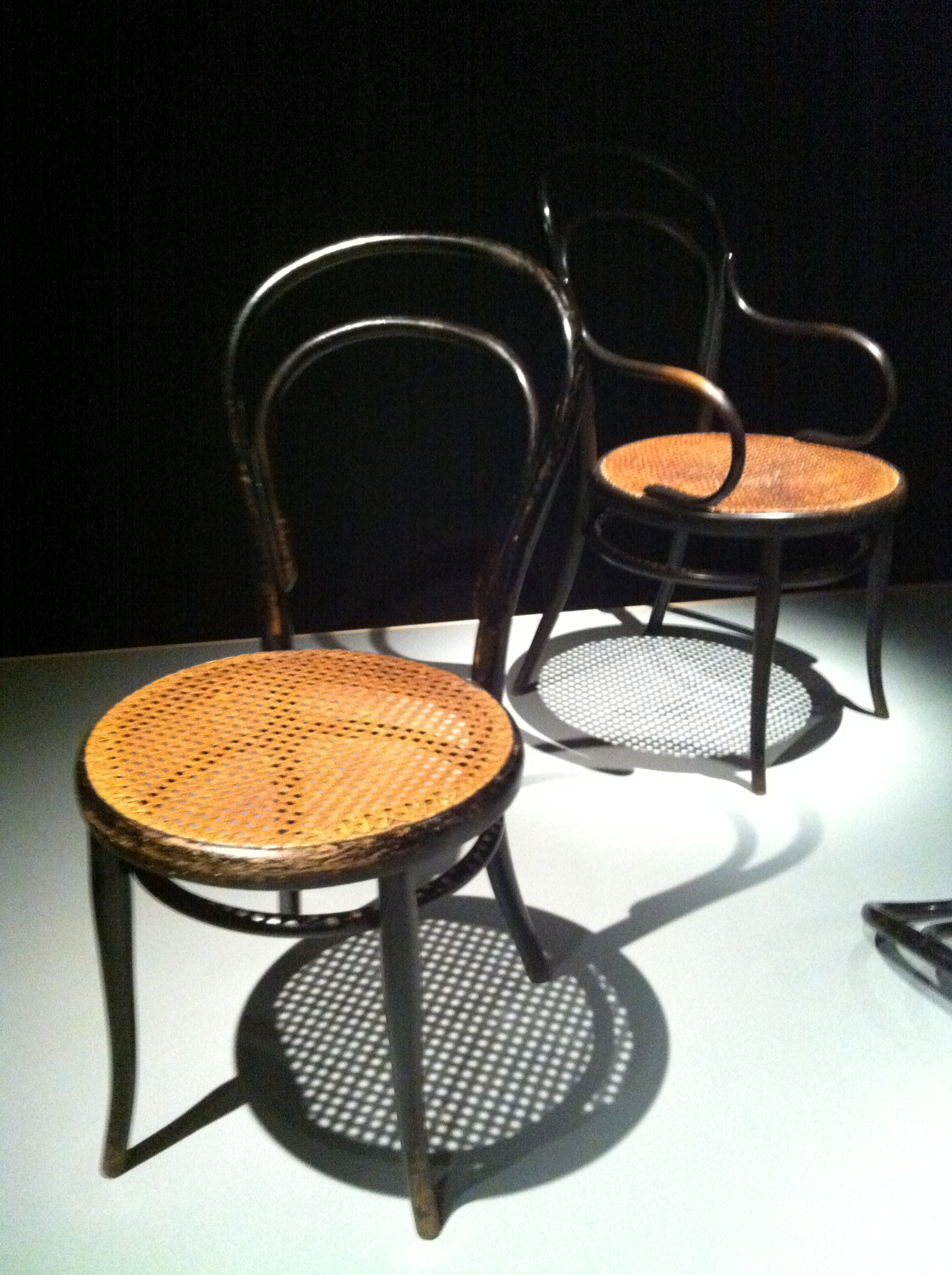 Systems design- The Ulm school. Exhibit at Disseny Hub Barcelona- DHUB